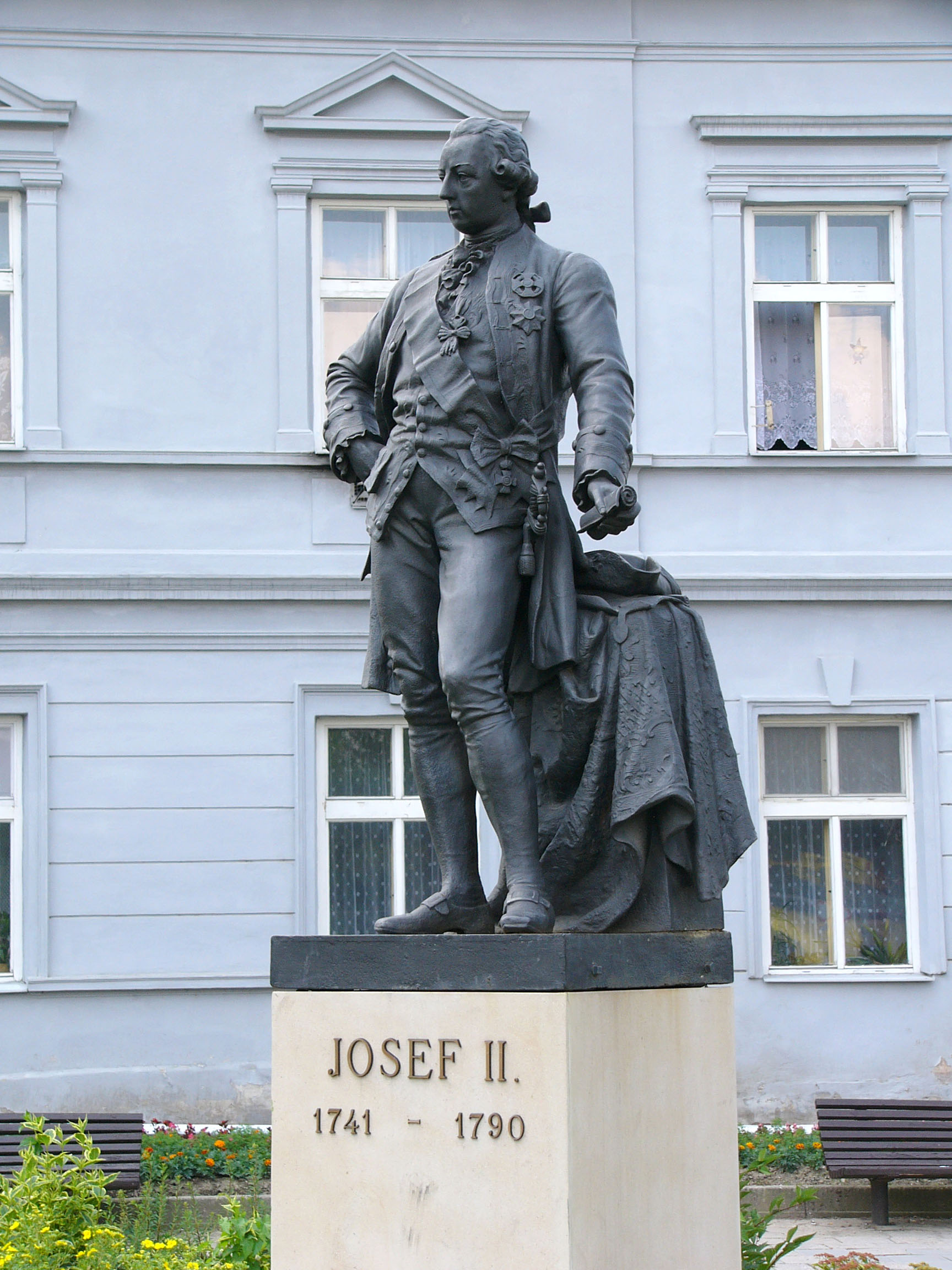 Joseph II, Holy Roman Emperor - statue in Uničov (Czech Republic).